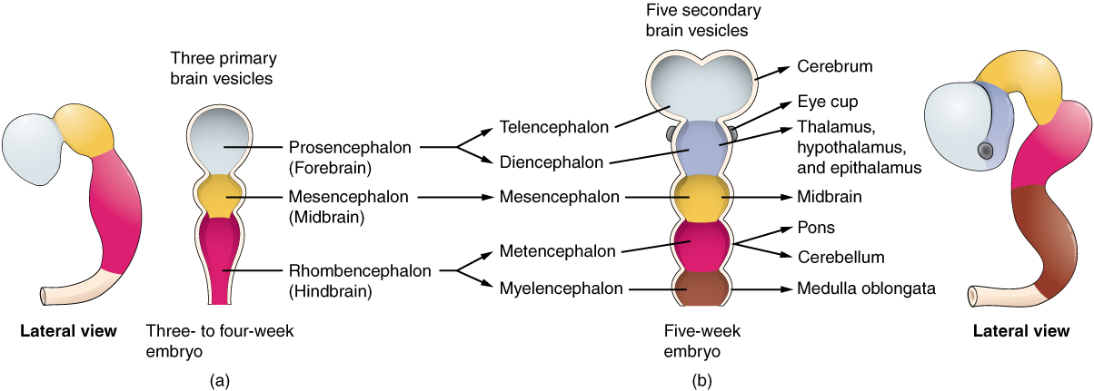 Version 8.25 from the Textbook OpenStax Anatomy and Physiology Published May 18, 2016